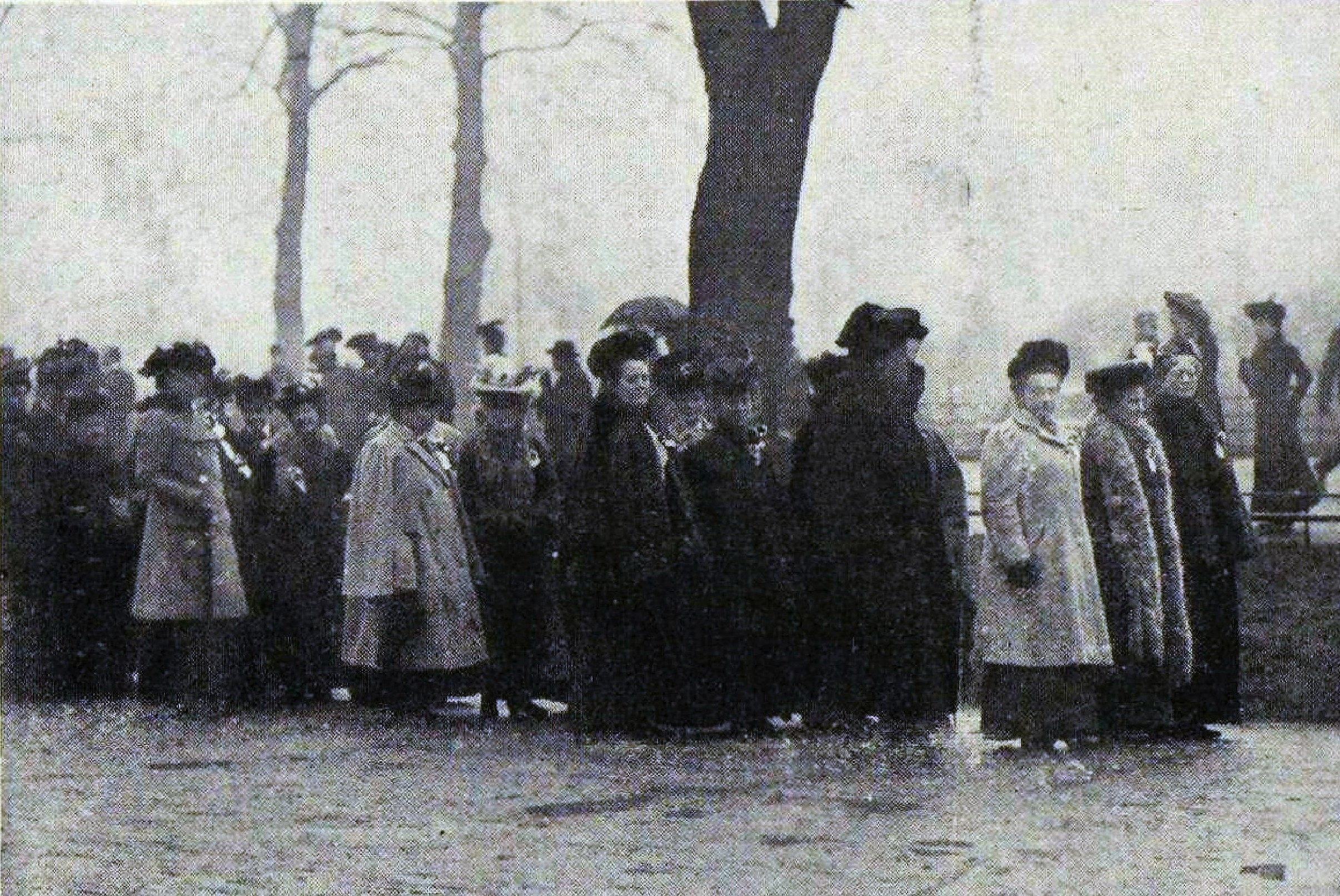 Mud March, 9 February 1907. Caption in The Illustrated London News, "Distinguished leaders of the suffragettes: Lady Frances Balfour, Lady Stachey and Mrs Henry Fawcett leading the procession"